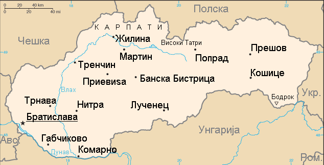 Map of Slovakia on Macedonian.